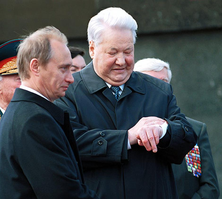 RED SQUARE, MOSCOW. At the parade celebrating the 55th anniversary of the Victory in the Great Patriotic War, 1941-1945.